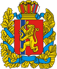 Krasnoyarsk krai, coat of arms